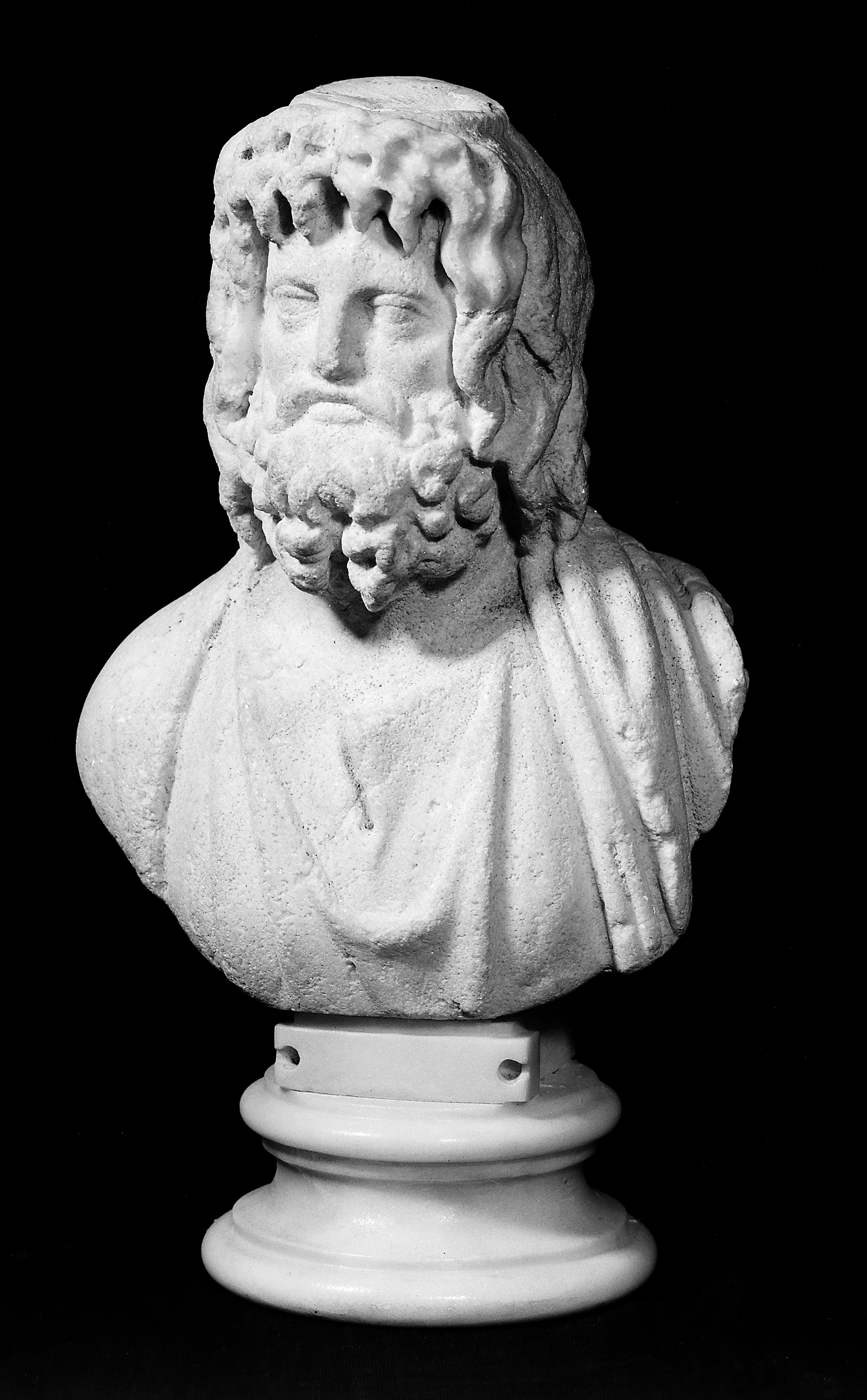 Bust of Jupiter Serapis. Ancient copy of a well known ancient bust of Serapis. Wellcome Images Keywords: Rome; Ancient Greece; Serapis